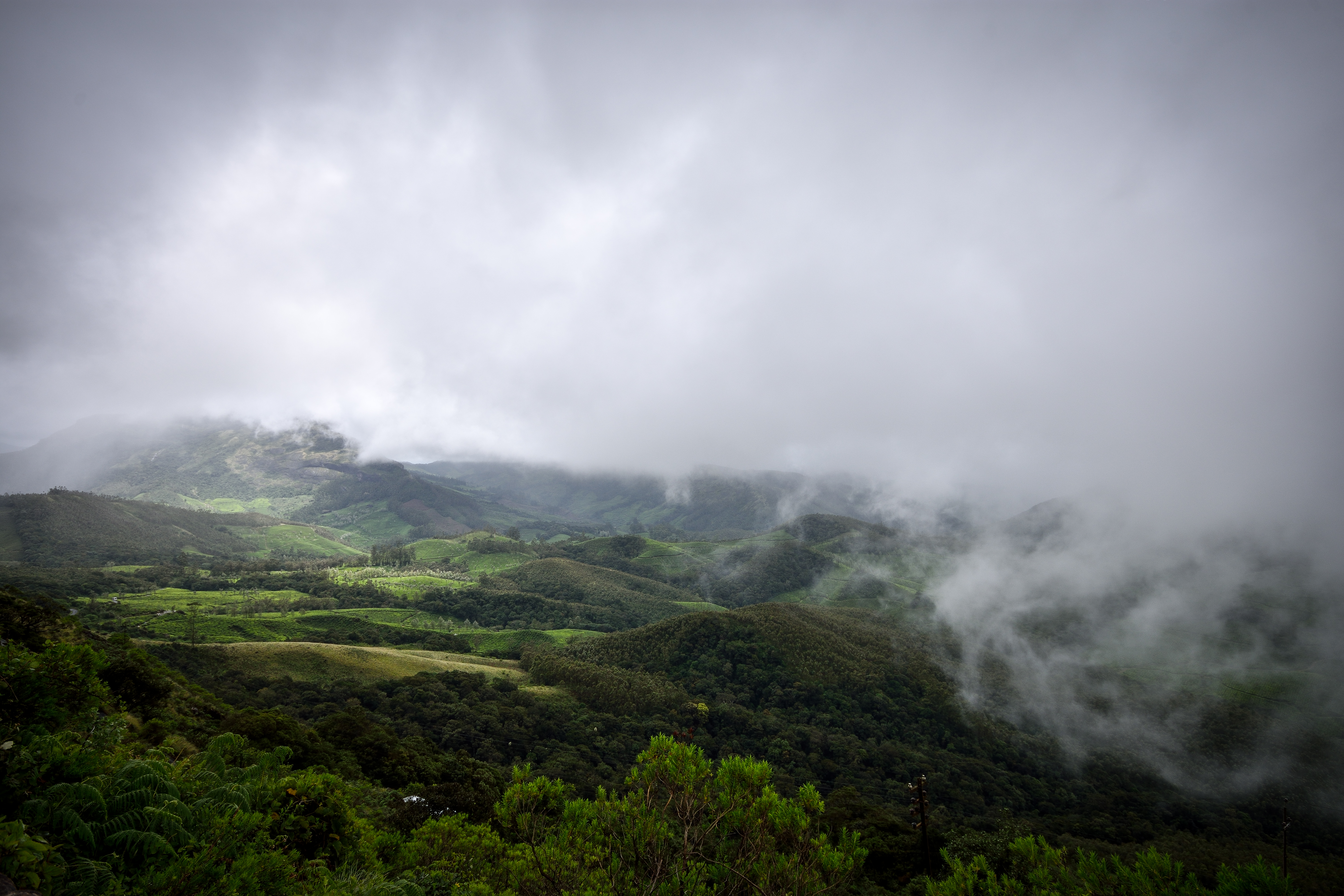 While climbing up the meandering path of the park, saw the clouds converging in !